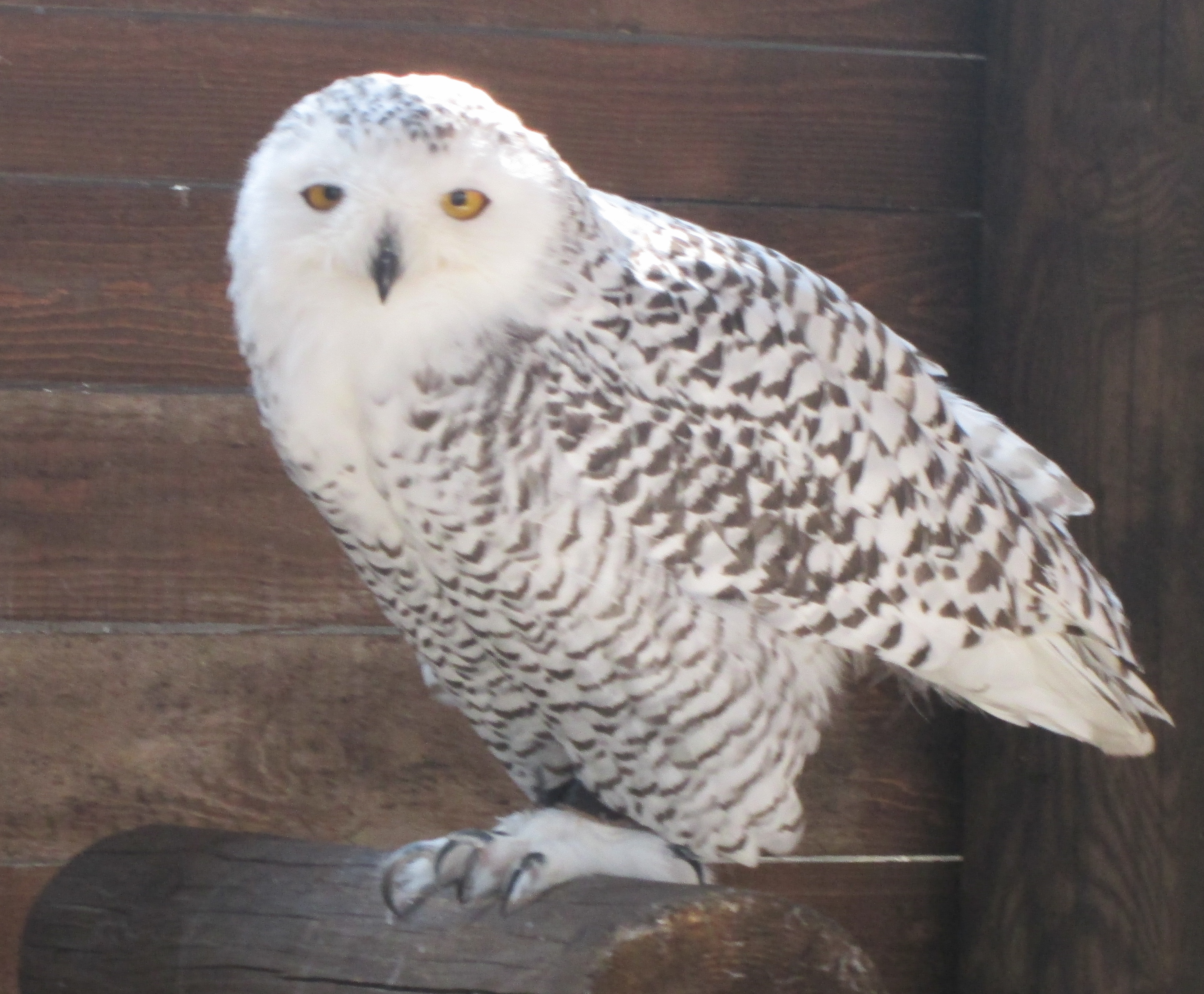 Bubo scandiacus in Pombia Safari Park ITALY